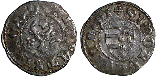 Coins of Petru I Muşat (Voivode of Moldavia 1375-1391).